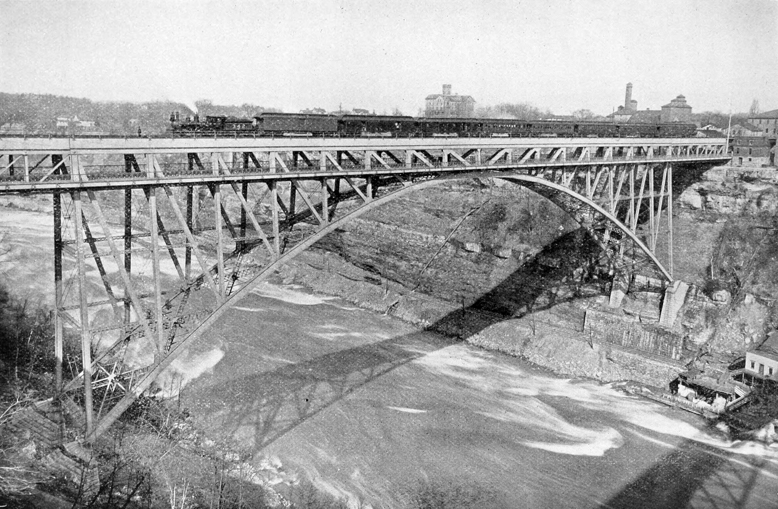 Train crossing the Lower Steel Arch Bridge over the Niagara River